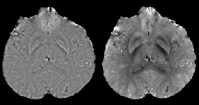 A comparison between the local magnetic field estimated by the high-pass filtering method and the projection onto dipole fields (PDF) method.